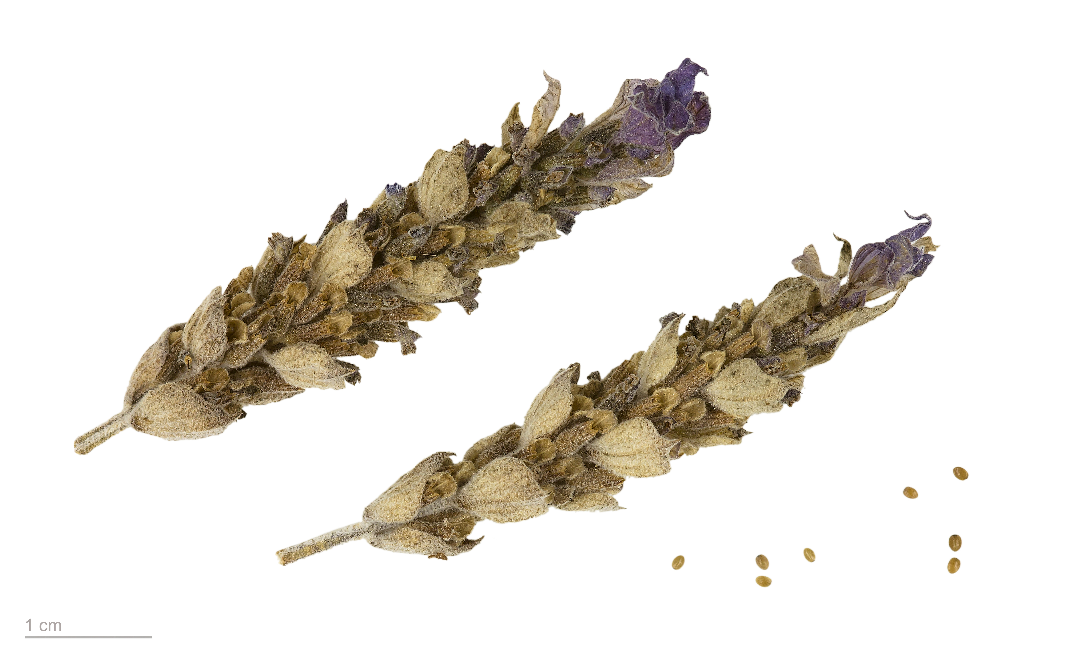 Lavandula dentata, , seeds